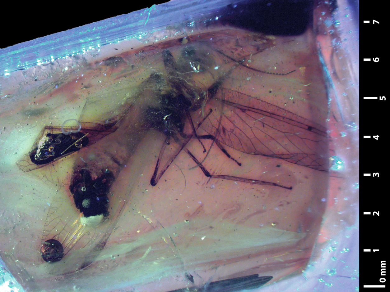 The Oisea celinea holotype specimen. (Synonym = Eorhachiberotha celinea Nel et al, 2005) Ypresian, Eocene; Oise Amber, Le Quesnoy, Houdancourt, Oise, Picardie France Muséum national d'Histoire naturelle specimen MNHN.F.A31928